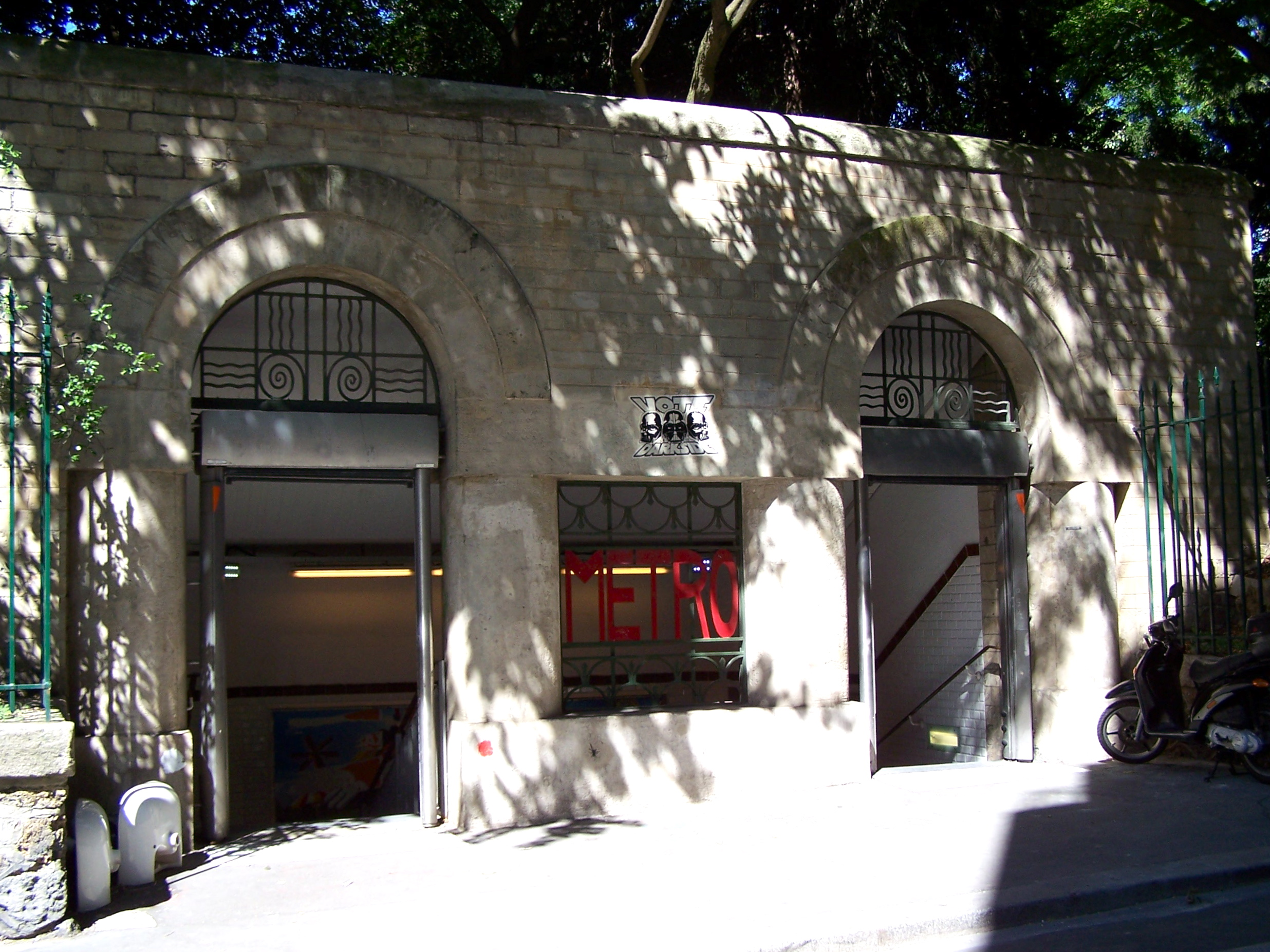 Entrance of the subway station at rue de Navarre